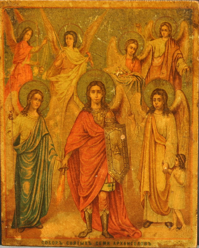 Council of Seven Holy Archangels. Russian icon.